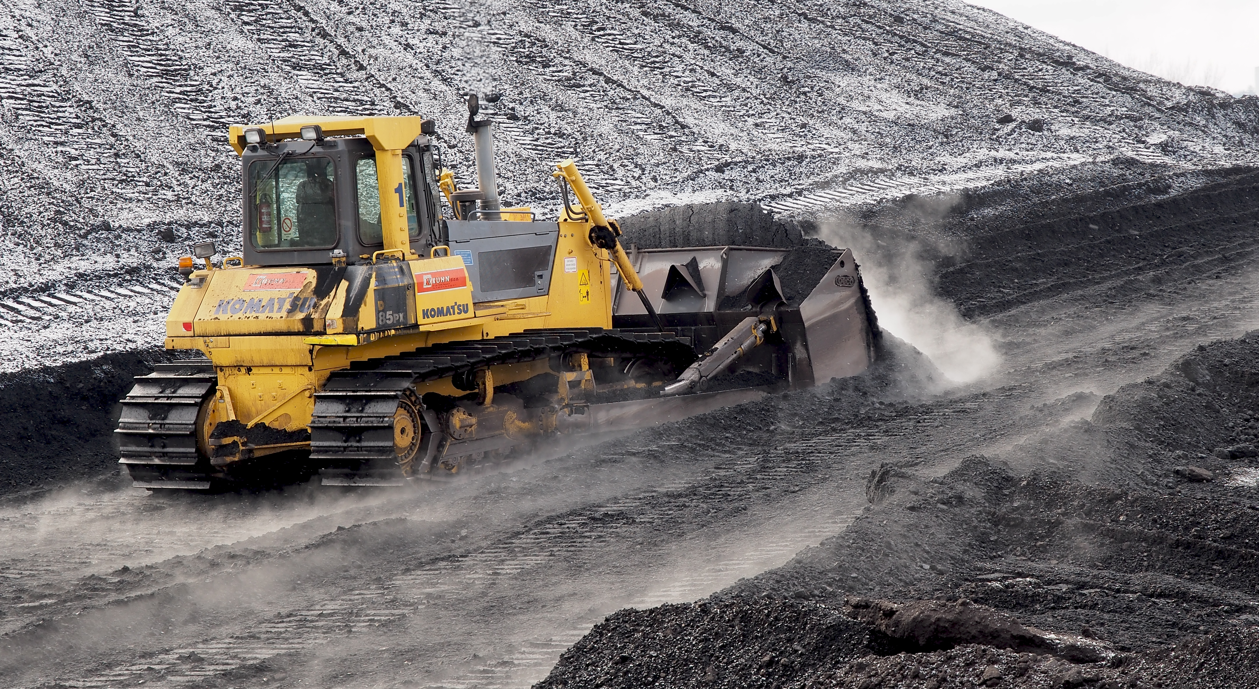 Komatsu bulldozer (D85 PX; semi-U tilt dozer) pushing Indonesian coal in Power plant Ljubljana (TE-TOL; central heating, electricity). Winter 2017, Slovenia. This photograph was taken with an Olympus E-P5